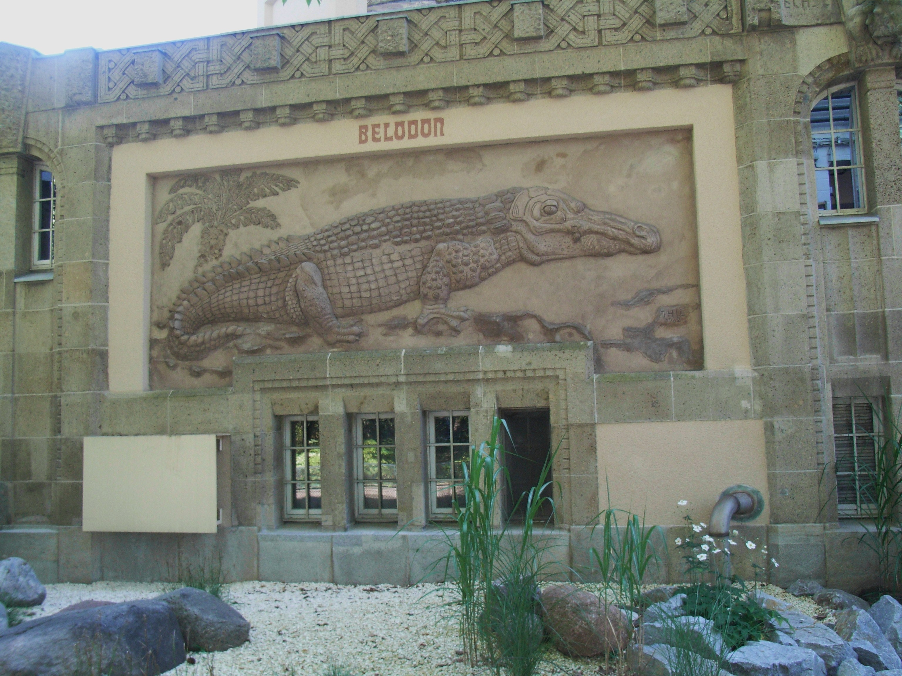 Heinrich Harder (1858 – 1935) relief of Belodon, a genus of phytosaur (a crocodile-like reptile) that lived during the Triassic, at the Berlin Aquarium. Heinrich Harder (2 June 1858 Putzar – 5 February 1935 Berlin) was a German artist and an art professor at the Prussian Academy of Arts in Berlin